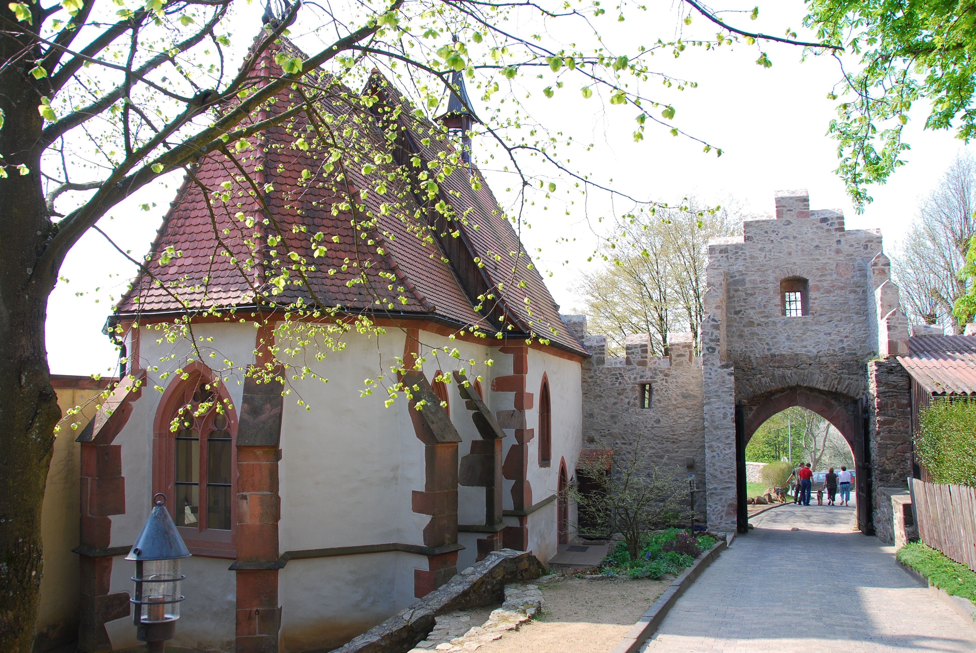 Chapel and castle gate at Schloss Reichenberg, Reichelsheim